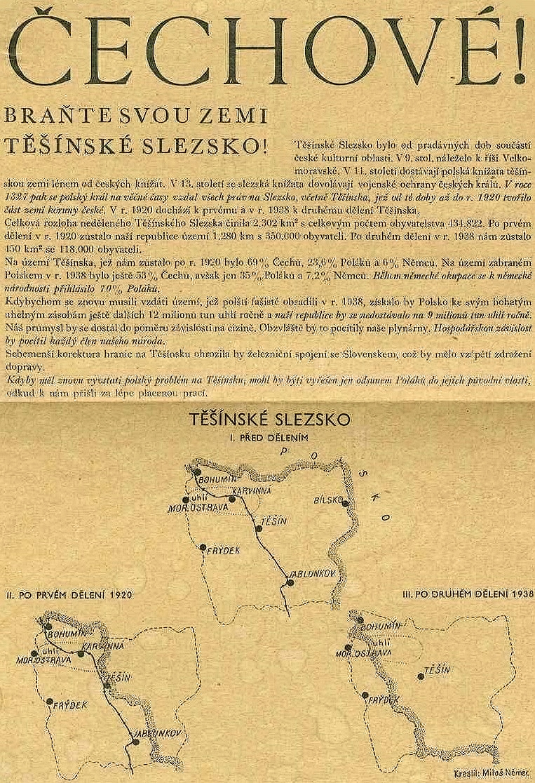 Czech flyer agitating against Polish territorial claims on Těšín Silesia after the Second World War.